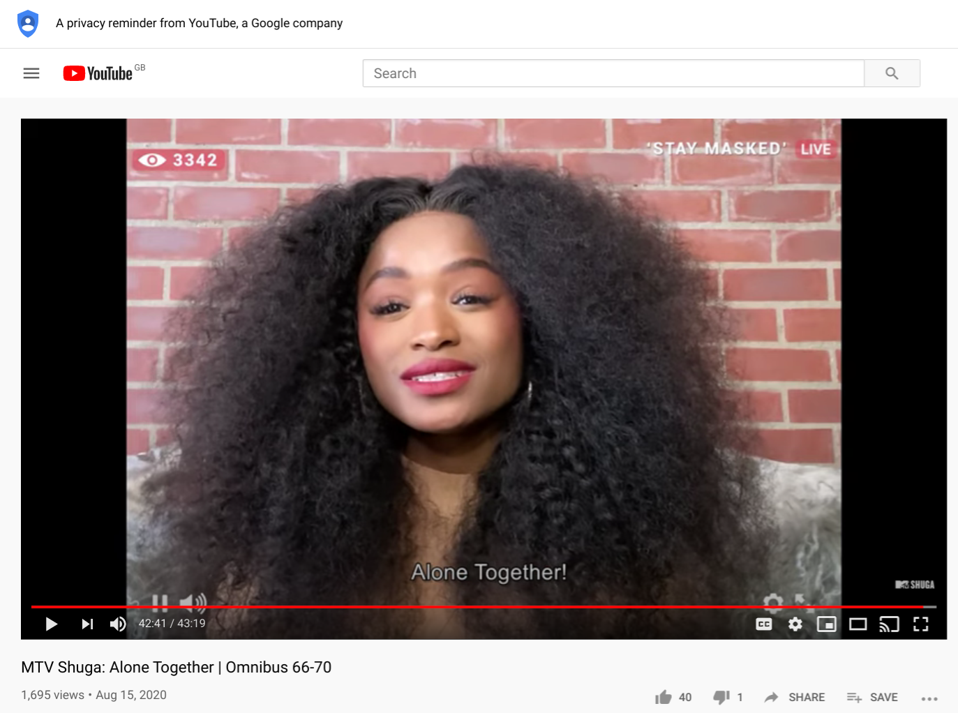 Nomalanga Shozi plays Mbali in MTV Shuga Alone Together saying the final two words - Alone Together